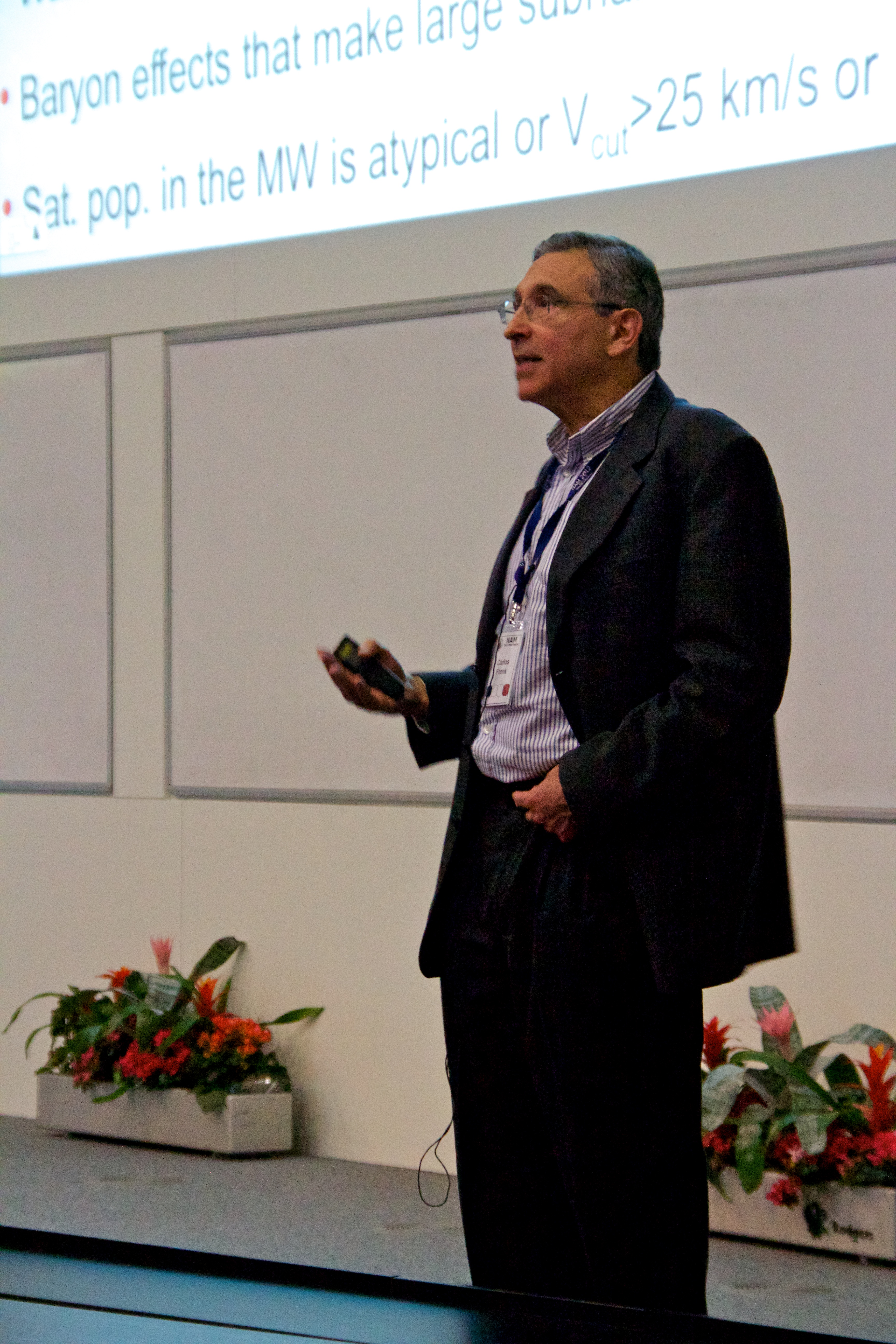 Carlos Frenk presenting at the National Astronomy Meeting 2012, Manchester.